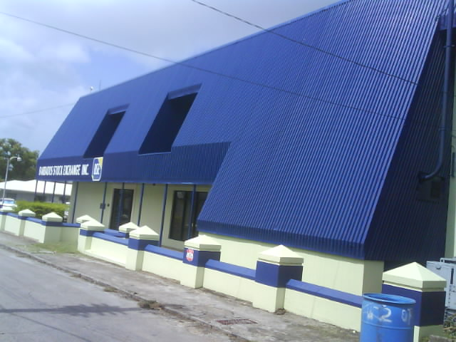 Southern façade of the Barbados Stock Exchange. (8th Avenue, Belleville, St. Michael, Barbados.)